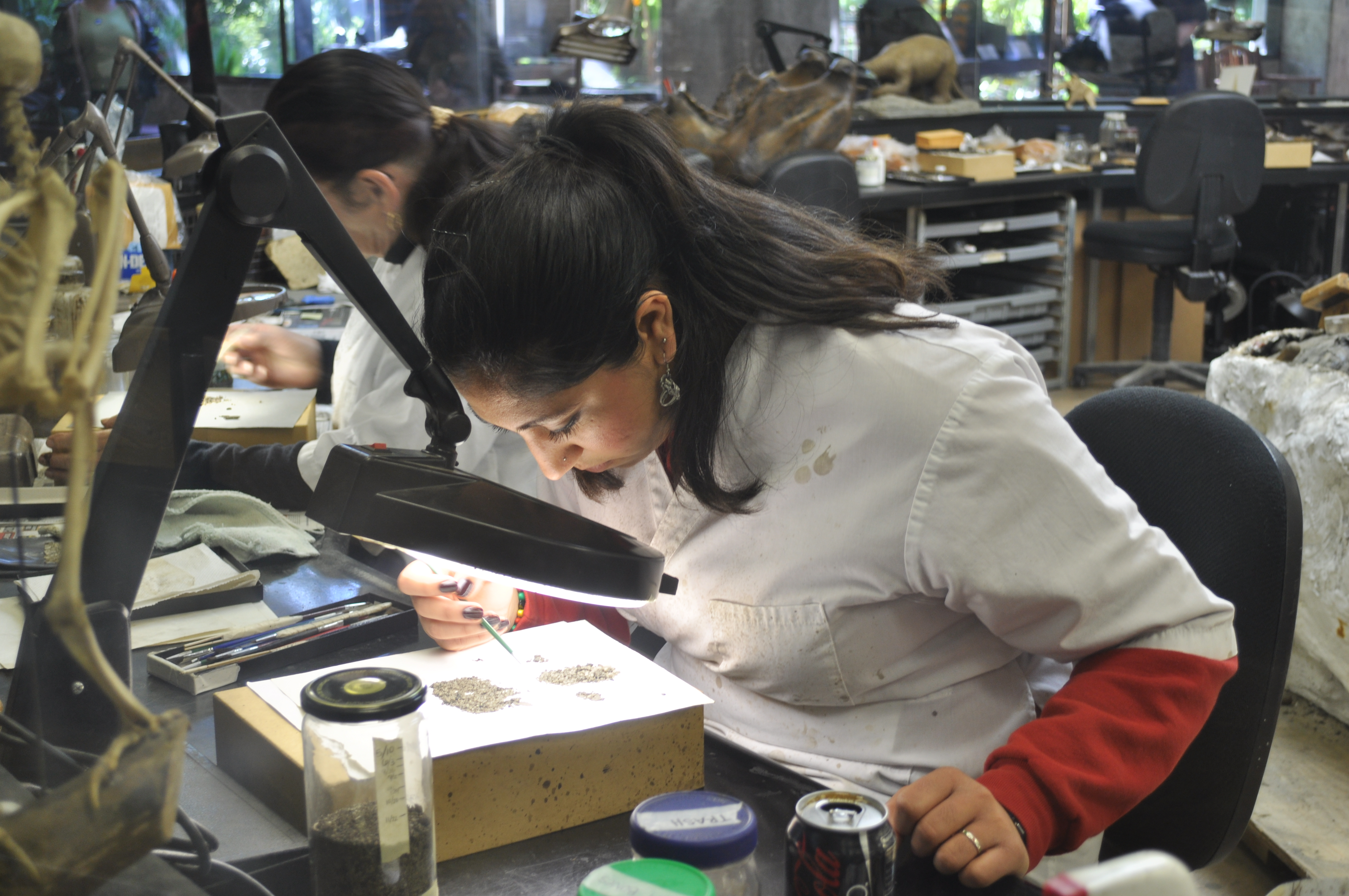 Paleontology Lab, George C. Page Museum at the La Brea Tar Pits, Los Angeles, California.